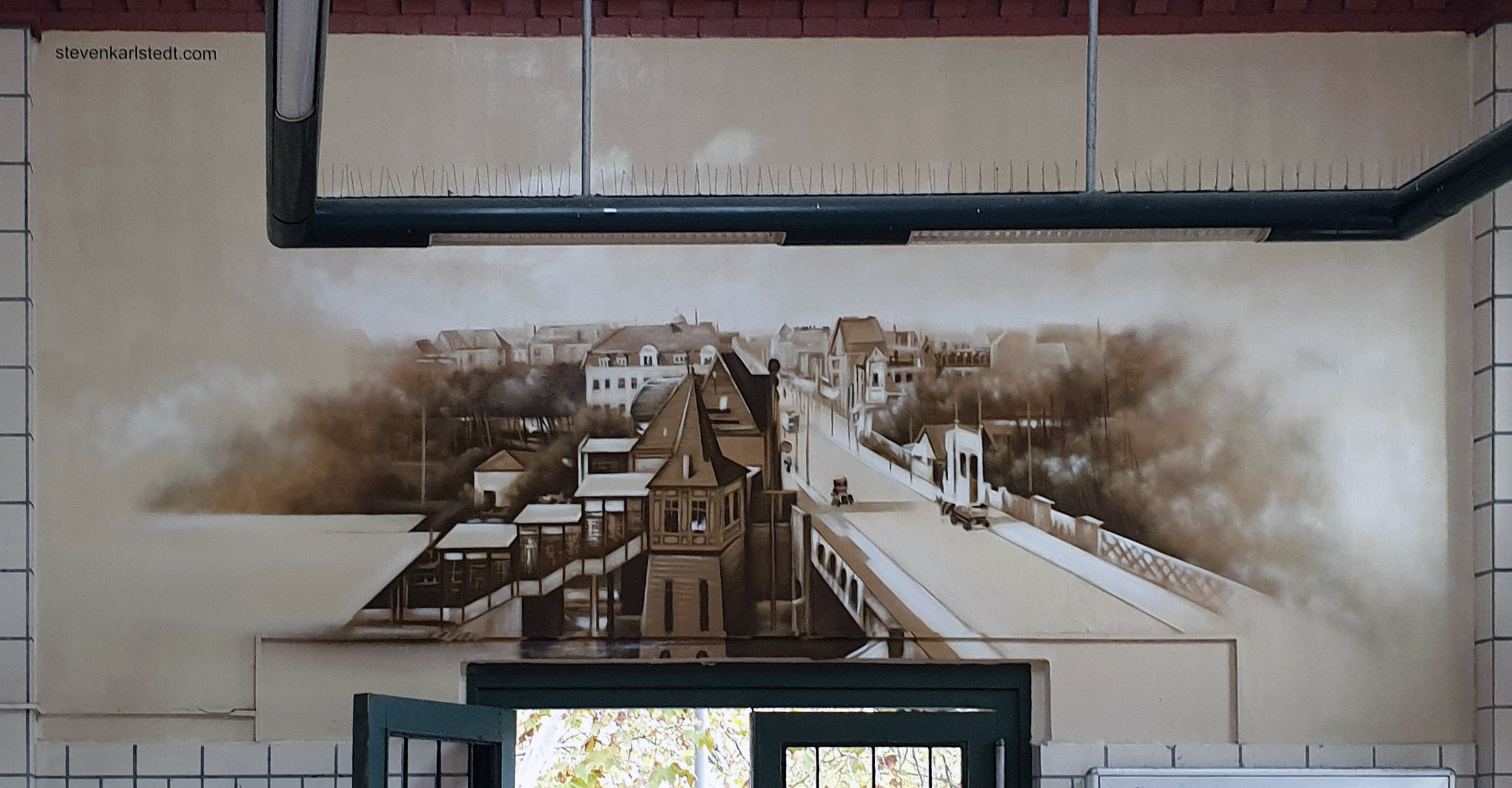 Murals, "Bahnhof Berlin Südende" by Steven Karlstedt, 2019, Steglitzer Damm 96c, Berlin-Steglitz, Germany